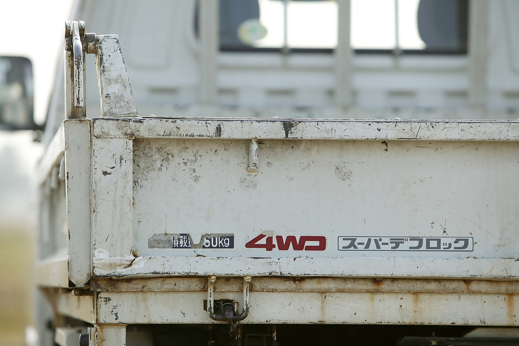 Daihatsu Hijet Climber dump truck diff-lock sticker.